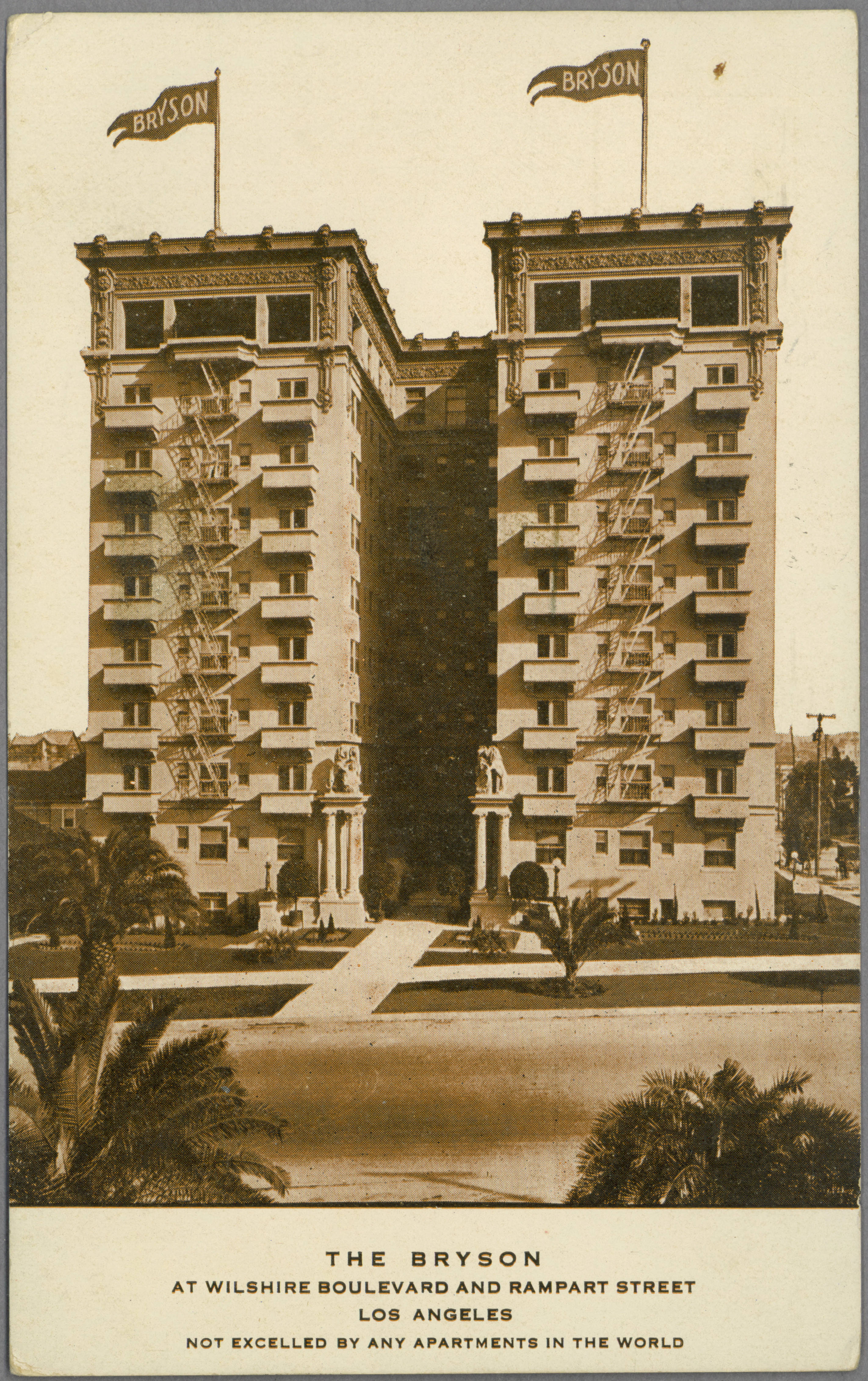 Bryson, at Wilshire Boulevard and Rampart Street, Los Angeles Postcard of The Bryson apartments at Wilshire Boulevard and Rampart Street in Los Angeles. "Not excelled by any apartments in the world" -- printed on front.; Handwritten manuscript on back. Postmarked from Los Angeles, California on June 27, 1966. Legacy Record ID: pcard-m149 Filename: pcard-print-pub-pc-57a; pcard-print-pub-pc-57b Access Conditions: Send requests to address or e-mail given. Phone (213) 821-2366; fax (213) 740-2343. Coverage date: 1910/1966 Part of collection: Historic Postcards Type: images Publisher (of the Digital Version): University of Southern California. Libraries Geographic Subject (State): California Geographic Subject: residential sites: Bryson Geographic Subject (County): Los Angeles Identifying Number: file name: pb-print-pub-slac-pc.57; file name: pb-print-pub-slac-pc-b.57 Format (aacr2): 1 postcard : col. ; 9 x 14 cm. Repository Name: USC Libraries Special Collections Language: English Rights: Public domain Subject (adlf): residential sites Repository Address: Doheny Memorial Library, Los Angeles, CA 90089-0189 Geographic Subject (City or Populated Place): Los Angeles Contributing entity: University of Southern California Date created: 1910/1966 Format (aat): Postcards; photographs Repository Geographic Subject (Country): USA Subject: apartments